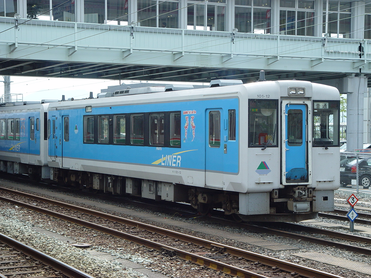 JR East KiHa 100 series DMU car Kiha 101-12 stabled at Yamagata Station